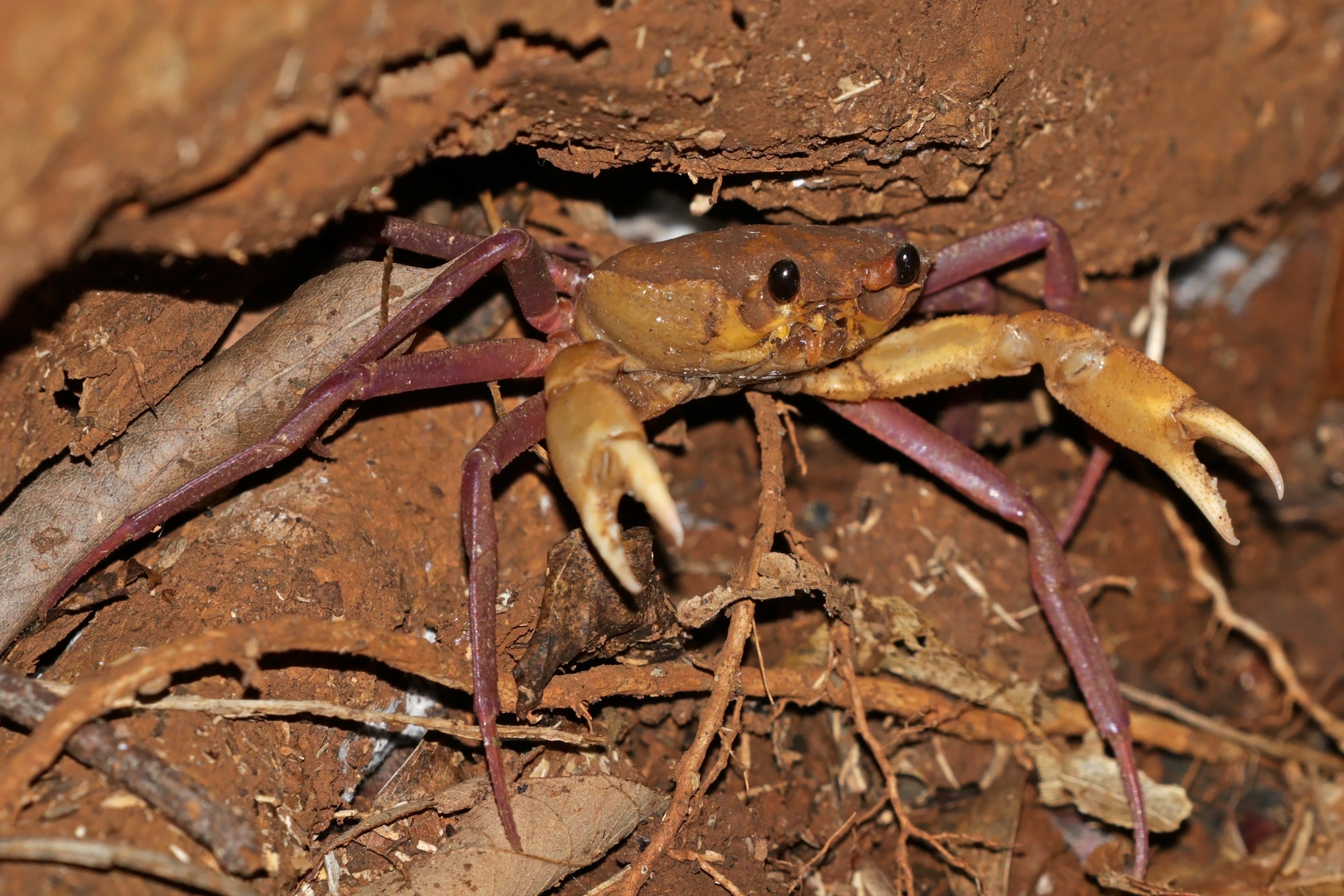 Malagasy freshwater crab (Madagapotamon humberti), Ankarana Reserve, Madagascar